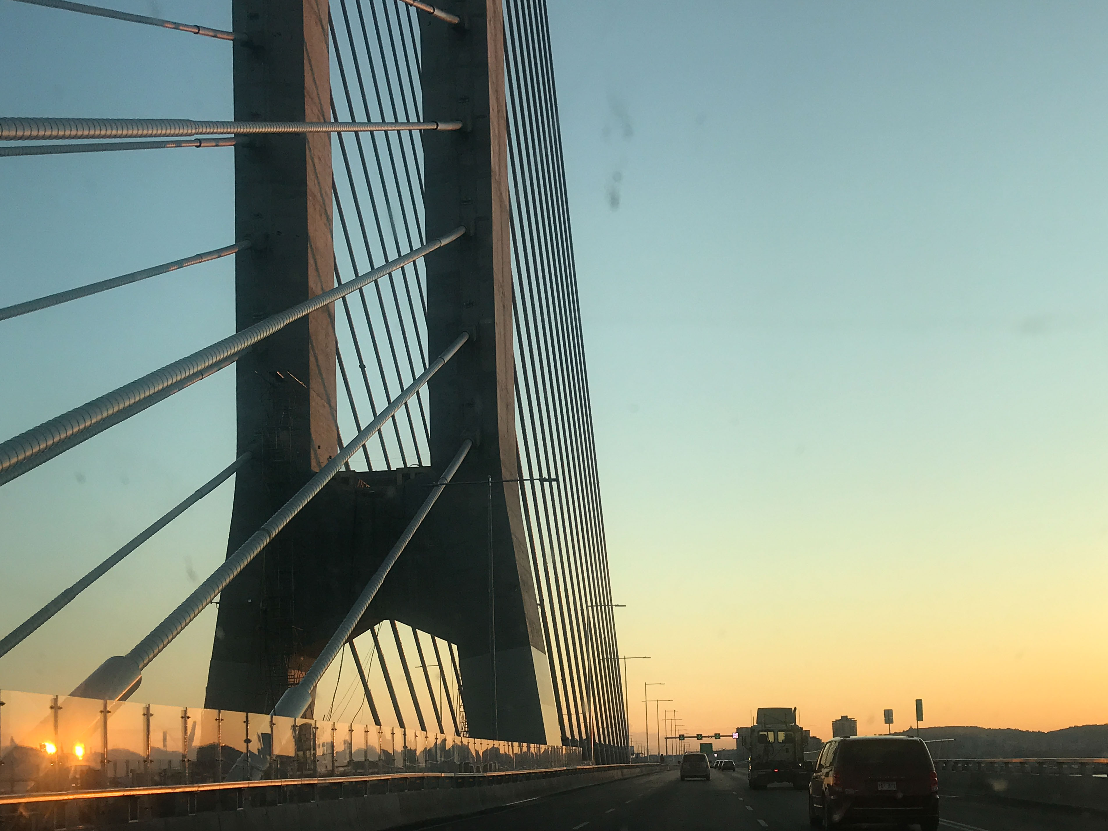 Champlain Bridge, Montreal, crossing the St. Lawrence River towards Montreal Island at sunset